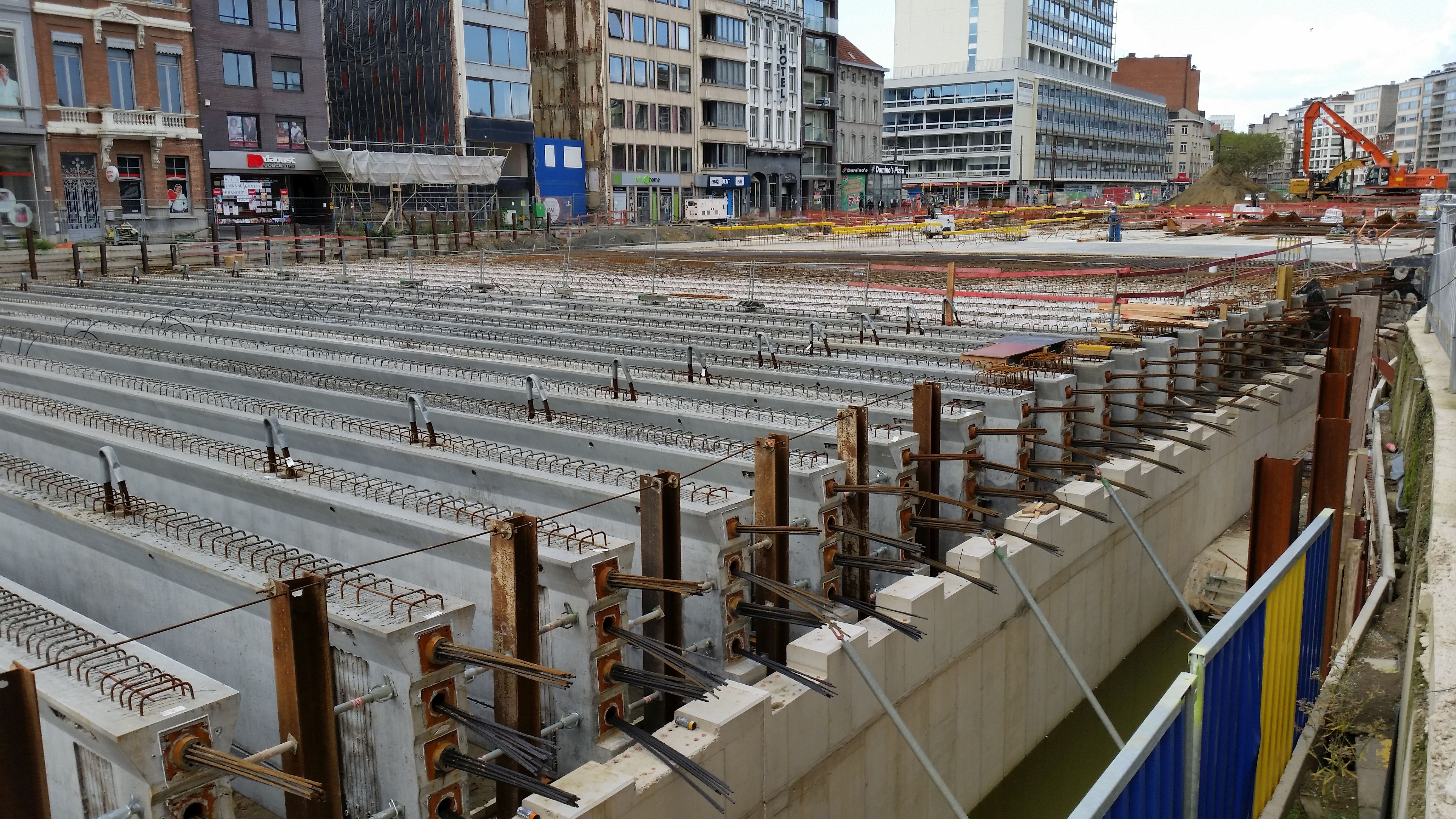 Redevelopment works of Opera Square in Antwerp, Belgium, within the frame of Noorderlijn project. Picture taken on October 29, 2017.